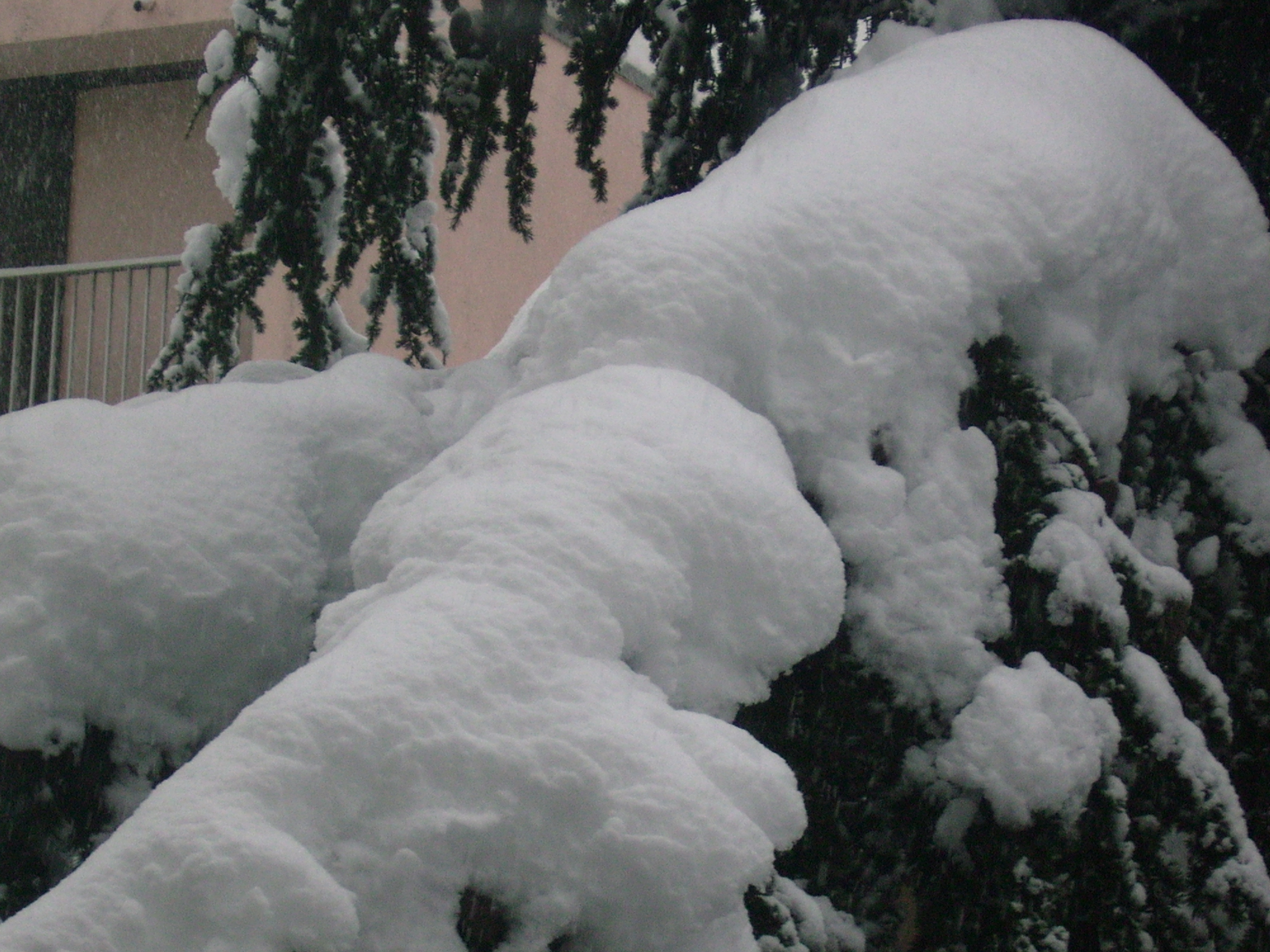 Mende (French city) in winter (December 08)